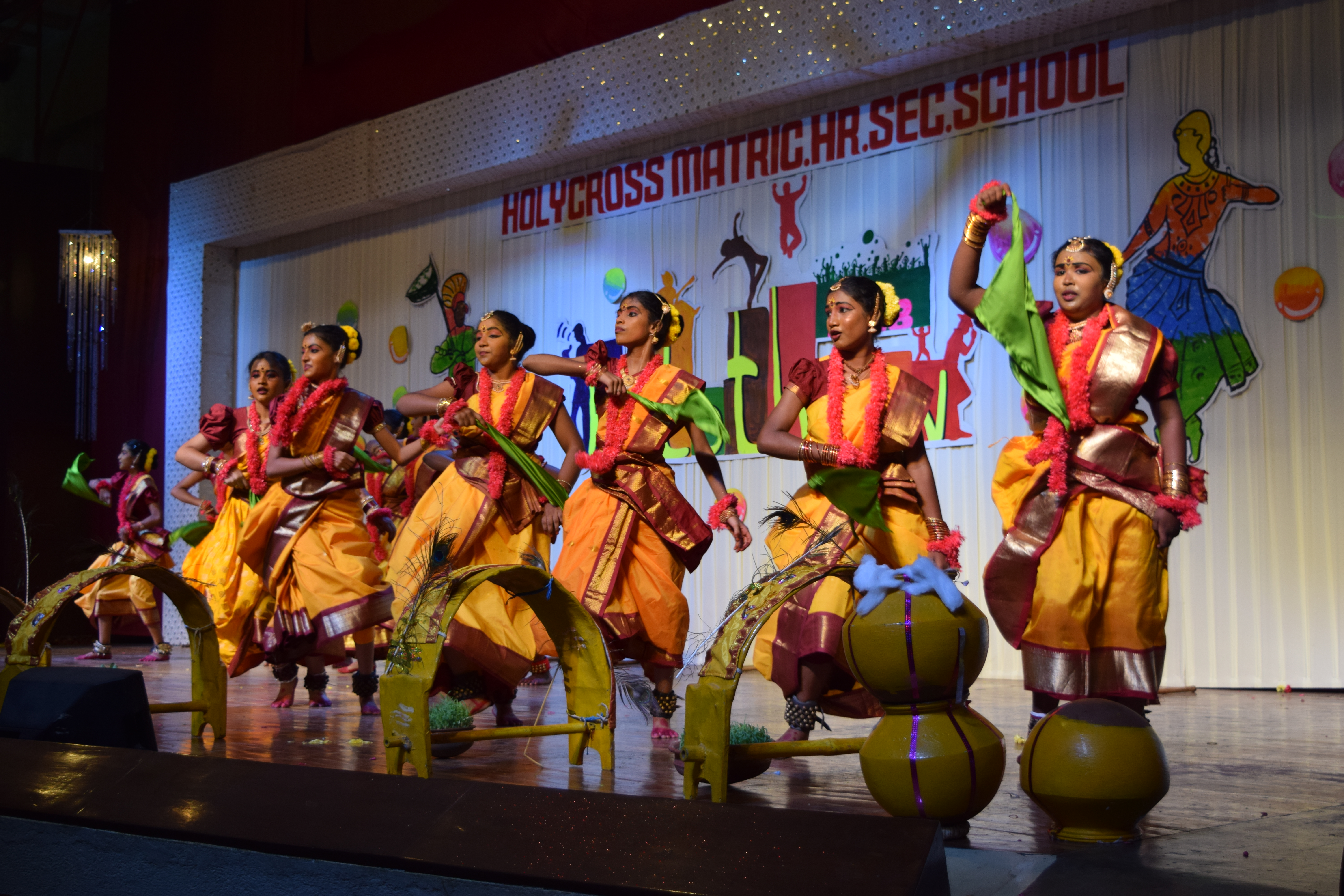 KALOTHSAV EVENTS ALL COMPETITIONS AT HOLYCROSS SALEM